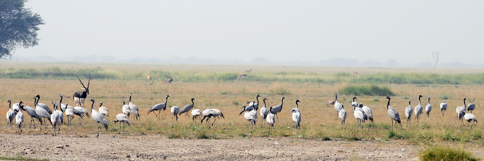 Panoramic view of Demoiselle Cranes Grus virgo, winter visitors to Rajasthan, enjoying the company of Black Bucks Antilope cervicapra, at Taal Chhappar, Rajasthan.